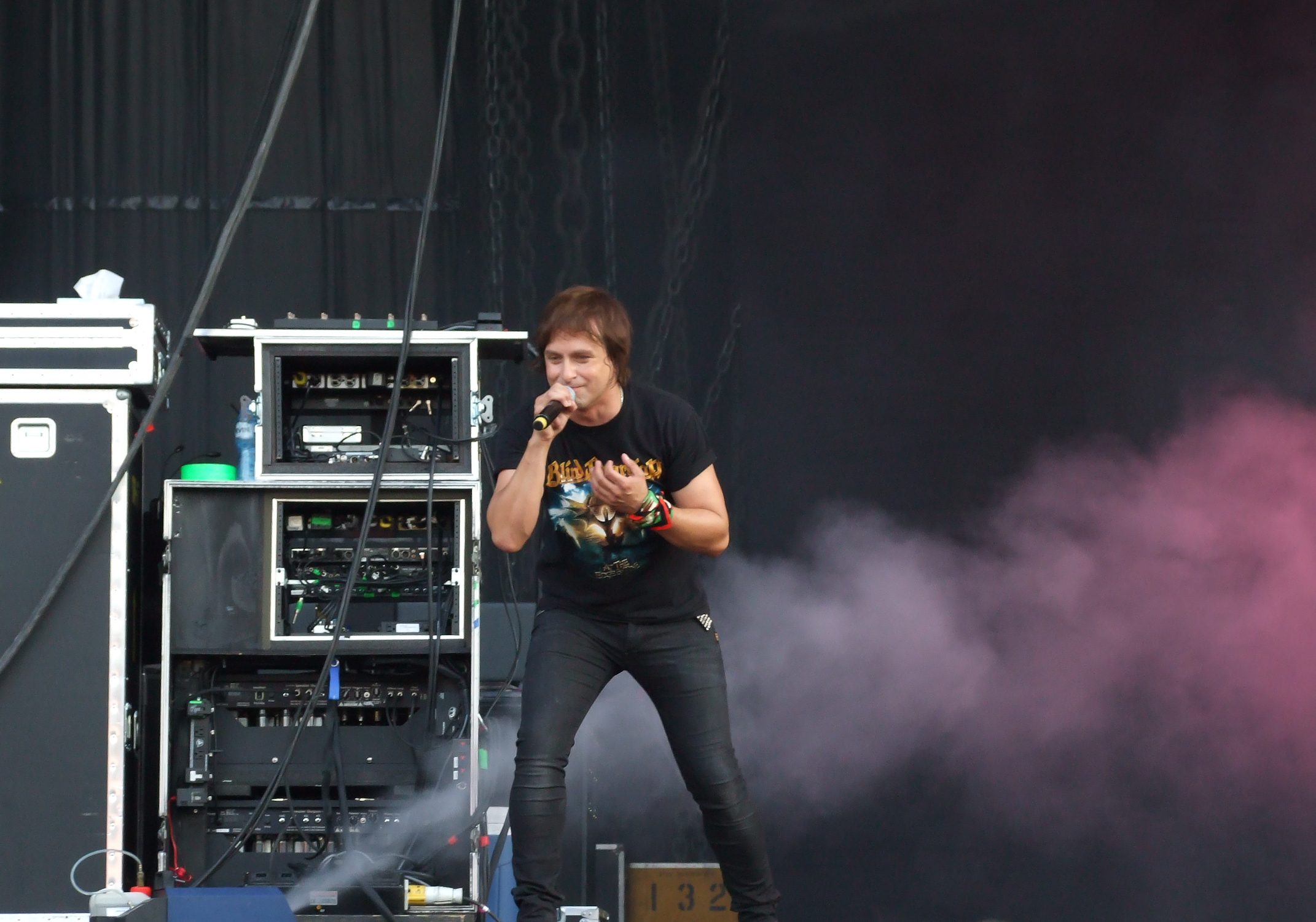 Tim Howar, the vocalist of the British pop-rock band Mike & The Mechanics at Sofia Rocks Fest 2011.